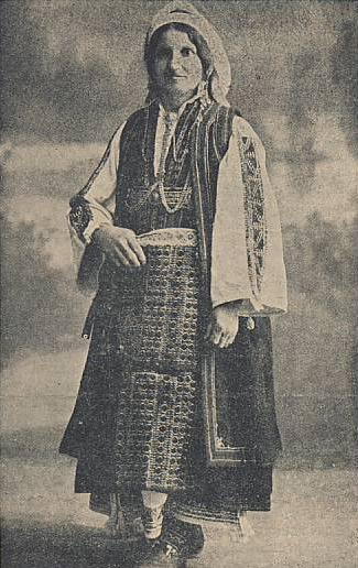 Portrait of IMARO member Tana Kirovska from Osnichani, Kastoria